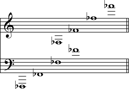 Notes, F Flat